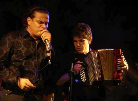 Colombian Vallenato singer Silvestre Dangond and Vallenato accordion player Juan Mario De la Espriella, also known as "Juancho"